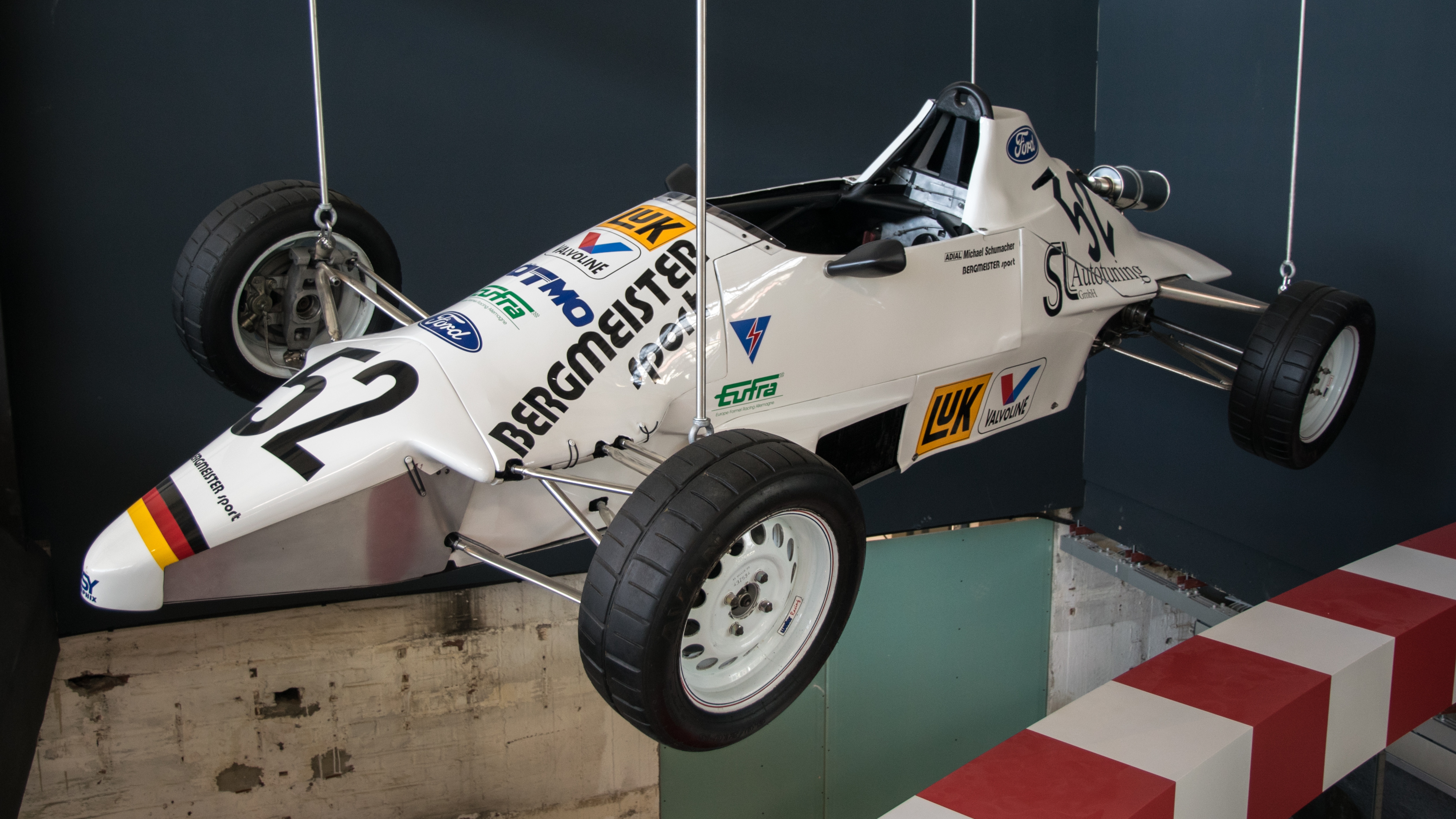 Van Diemen RF88 (1988) at Michael Schumacher Private Collection